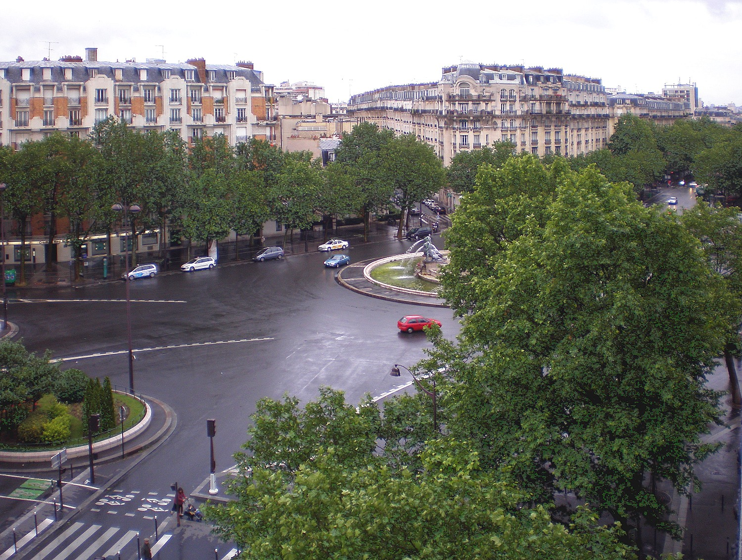 Place Daumesnil - Paris